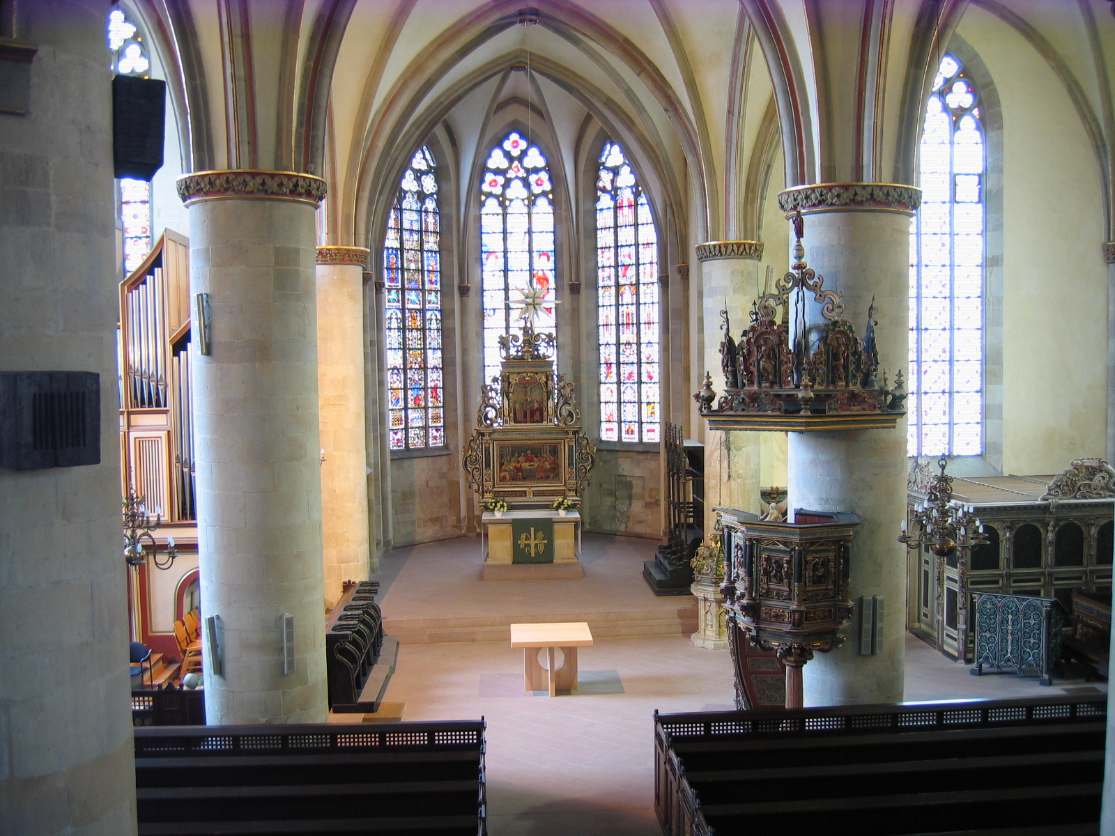 in Herford, District of Herford, North Rhine-Westphalia, Germany.